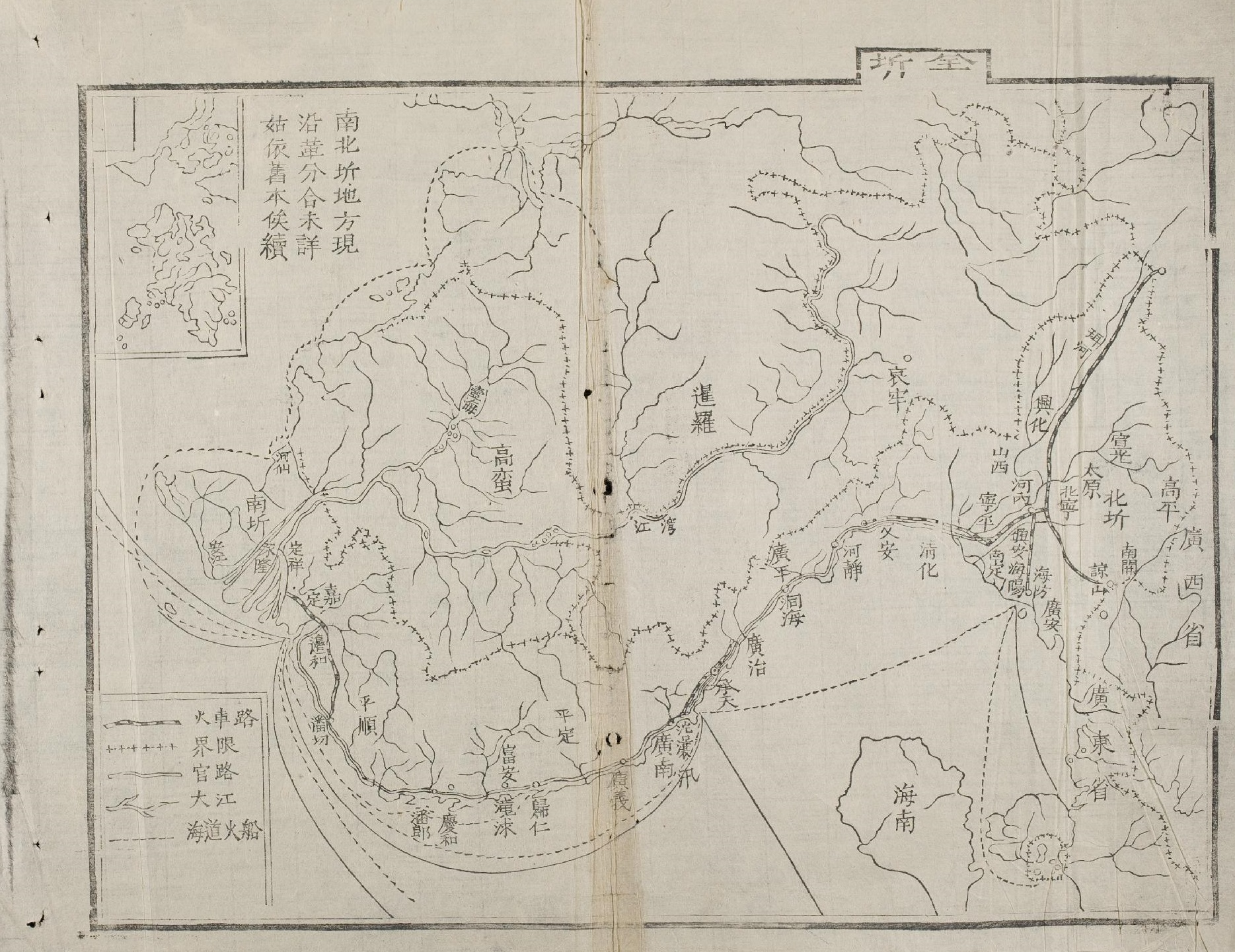 The greatest extent of territory of Nguyen Dynasty, Vietnam.